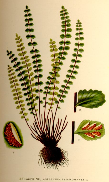 Asplenium trichomanes